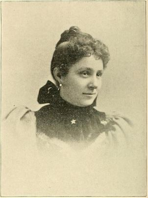 Lillian Fitz-Hugh Milliken